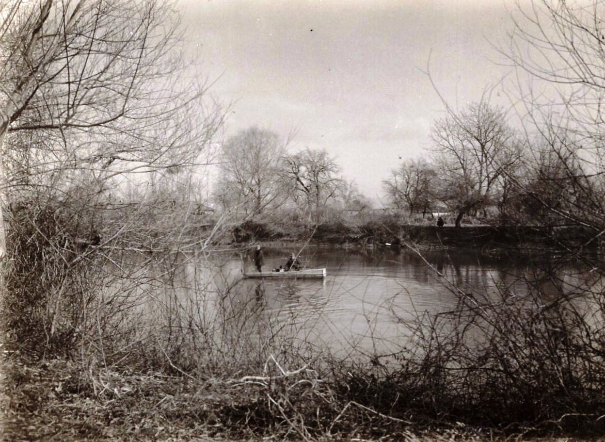 Postcard of village Ognjanci, photo taken in 1930's This media file is produced by Wikipedian in Residence in Category:Wikipedian in Residence at DARM in 2016.